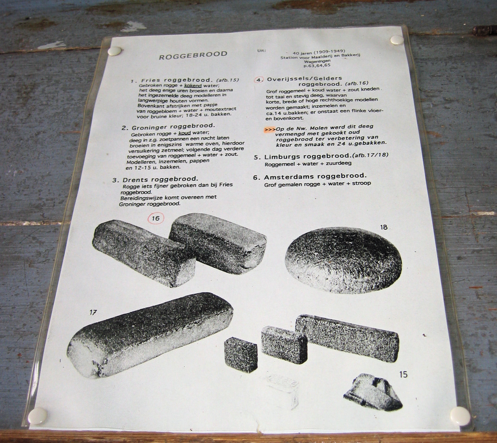 Dutch rye bread recepies